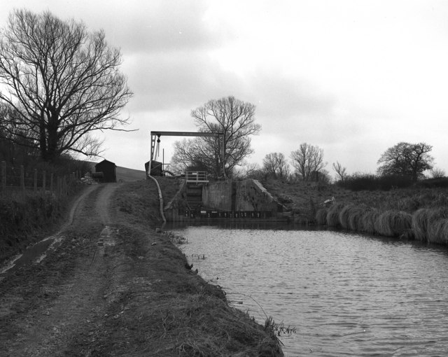 Froxfield Middle Lock No 69, Kennet and Avon Canal The restoration gang was busy at this lock when photographed in March 1976. There is not always agreement about the name of this lock for the following reason: there were three Froxfield locks, and this one being the middle one, was appropriately named. However, Froxfield Top Lock has often been called Oakhill Down Lock. As this left only two Froxfield locks, the name Froxfield Upper Lock has been used by some writers to describe the Middle lock. To avoid any confusion, the older name is to be preferred